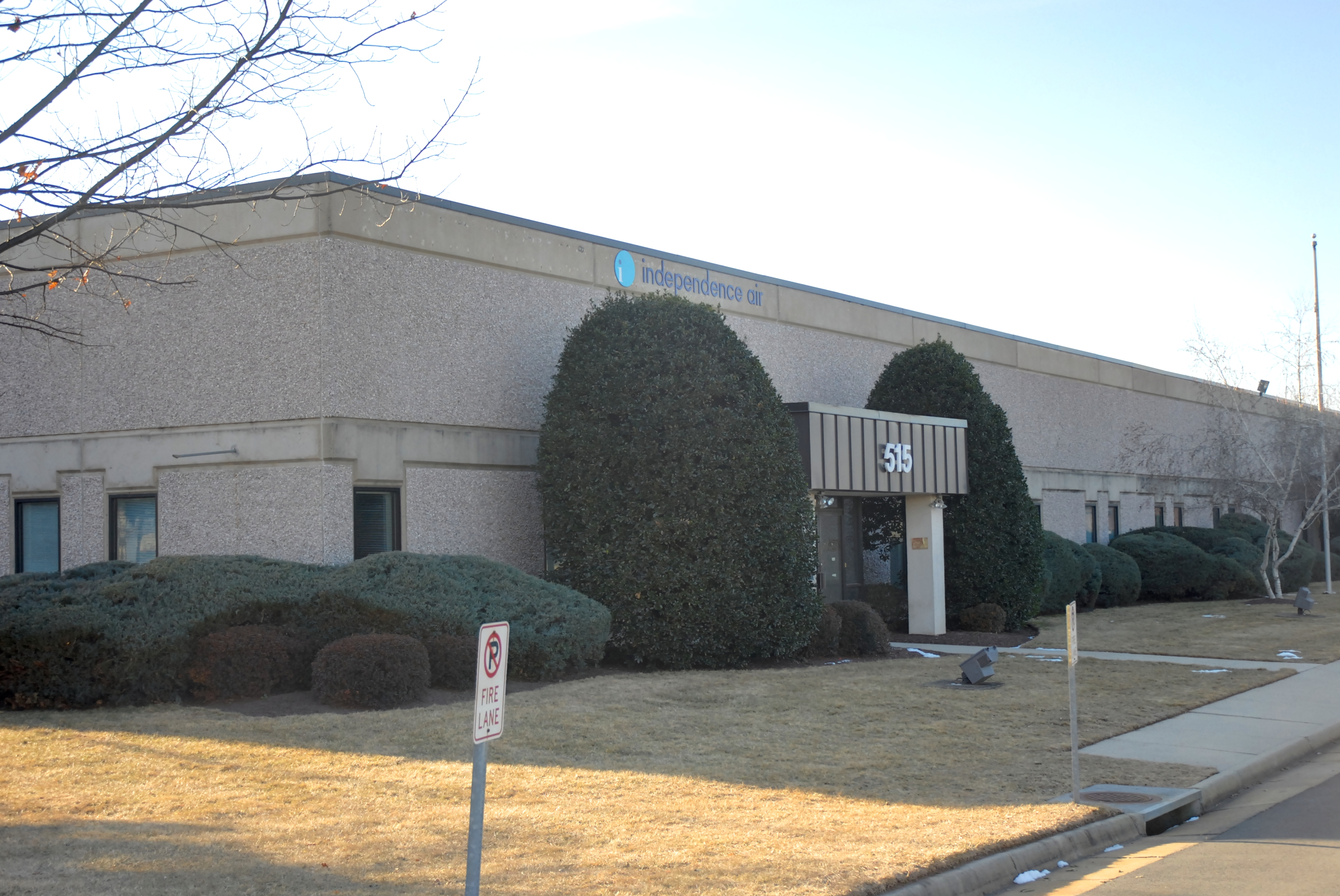 Independence Air employment center in Sterling. - 515 Shaw Rd Sterling, VA